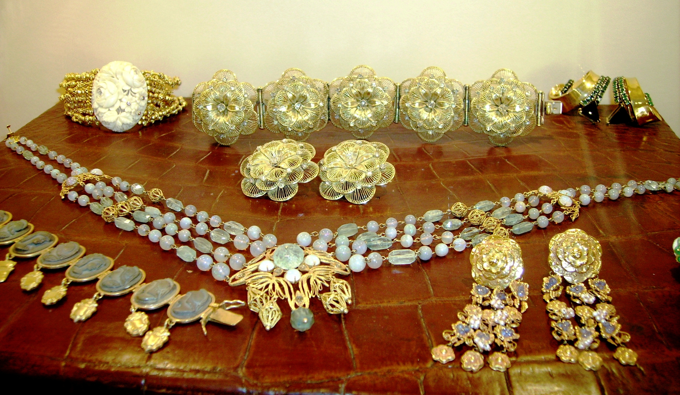 Artigianato sardo, oggetti in filigrana Own work By--Shardan 16:58, 14 September 2007 (UTC)